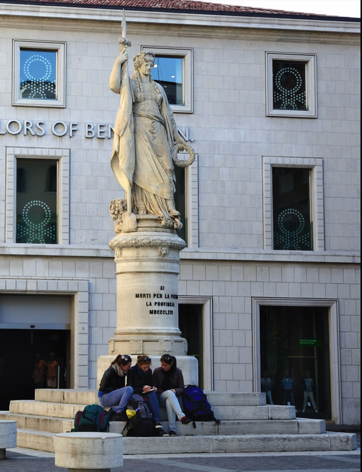 Luigi Borro, L’Italia turrita, war memorial, 1866, Treviso.